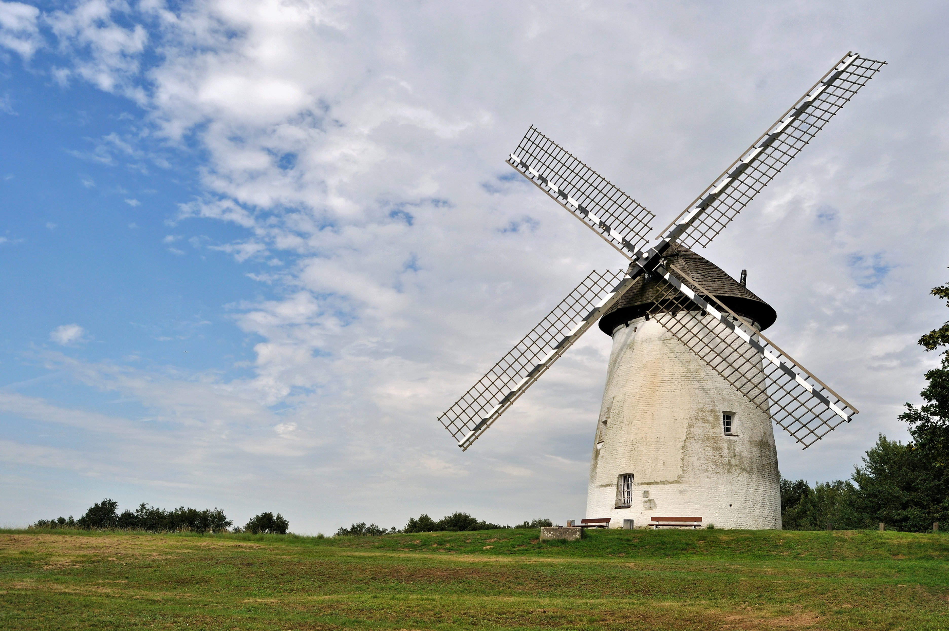 Krefeld (North Rhine-Westphalia, Germany) – district Traar – Egelsberg Mill.